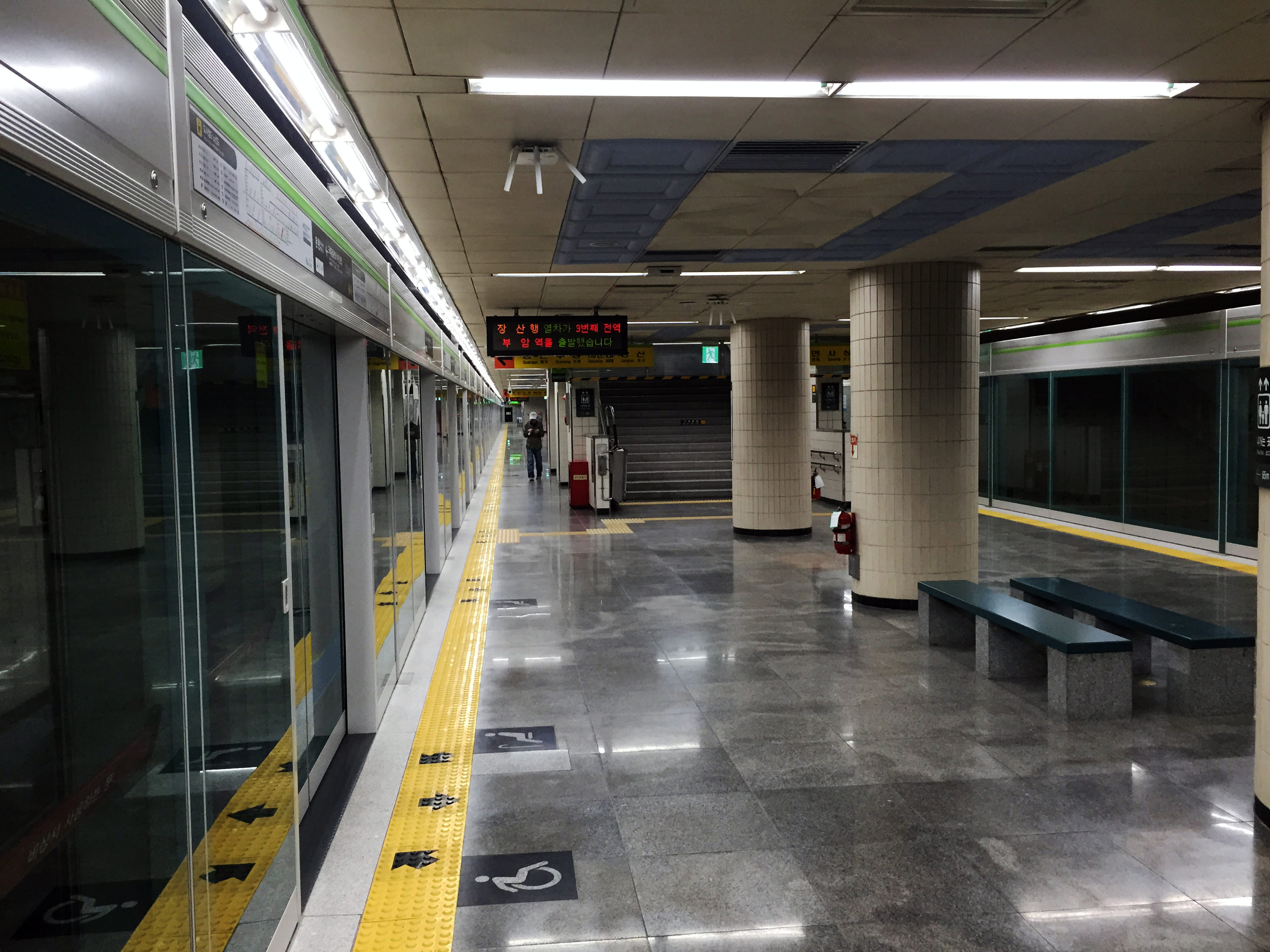 Platform of Busan International Finance Center·Busan Bank Station